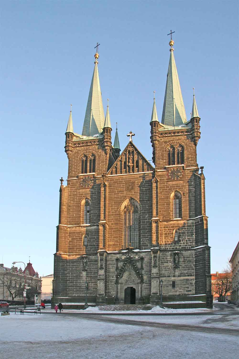 Archdecanal church of Assumption in Chrudim, Czech Republic.